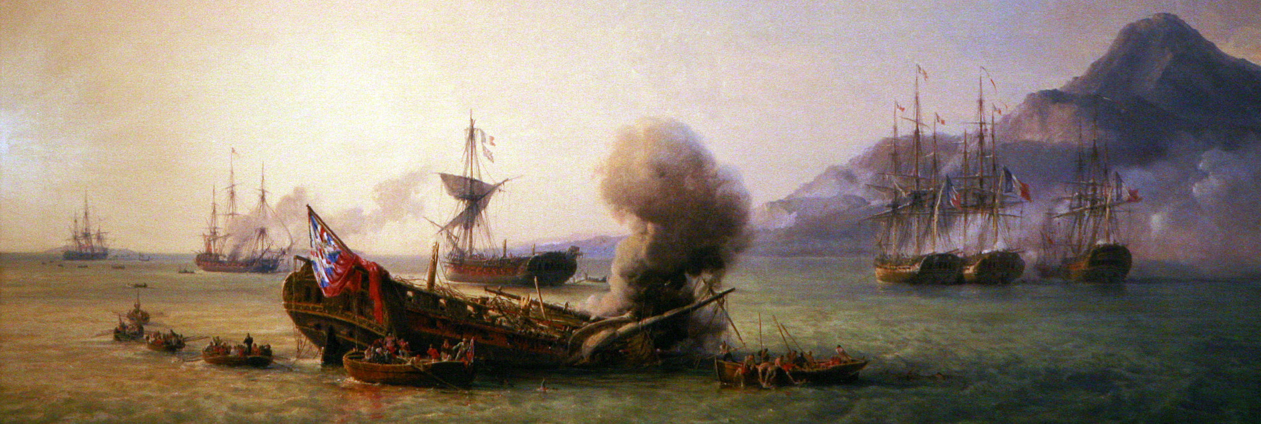 Battle of Grand Port Visible are, from left to right: HMS Iphigenia striking her colours (actually happened the next day) HMS Magicienne being scuttled by fire HMS Sirius being scuttled by fire HMS Nereide surrendered French frigate Bellone French frigate Minerve Victor (background) CeylonOil on canvas